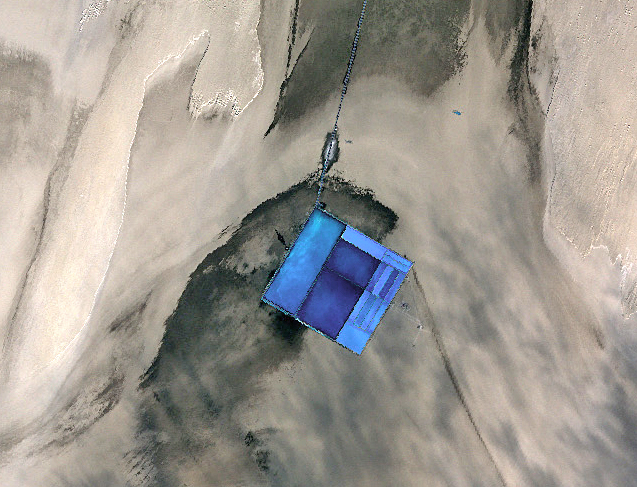 China, Xinjiang, desert Lop Nur. Satellite picture of the Lop Desert with the Basin of the formerly sea Lop Nur. You see the Salt field by the Lop Nur Sylvite Science and Technology Development Co. Ltd.. For more informatiom see here and here.